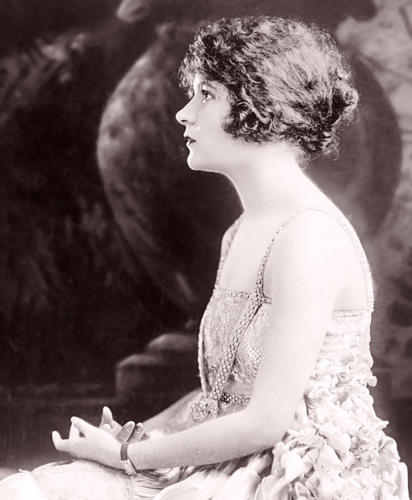 Actress Alice Lake